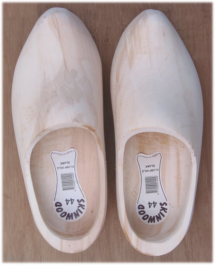 Wooden shoes, made from willow wood. Brand: Skinwood. Colour wood.